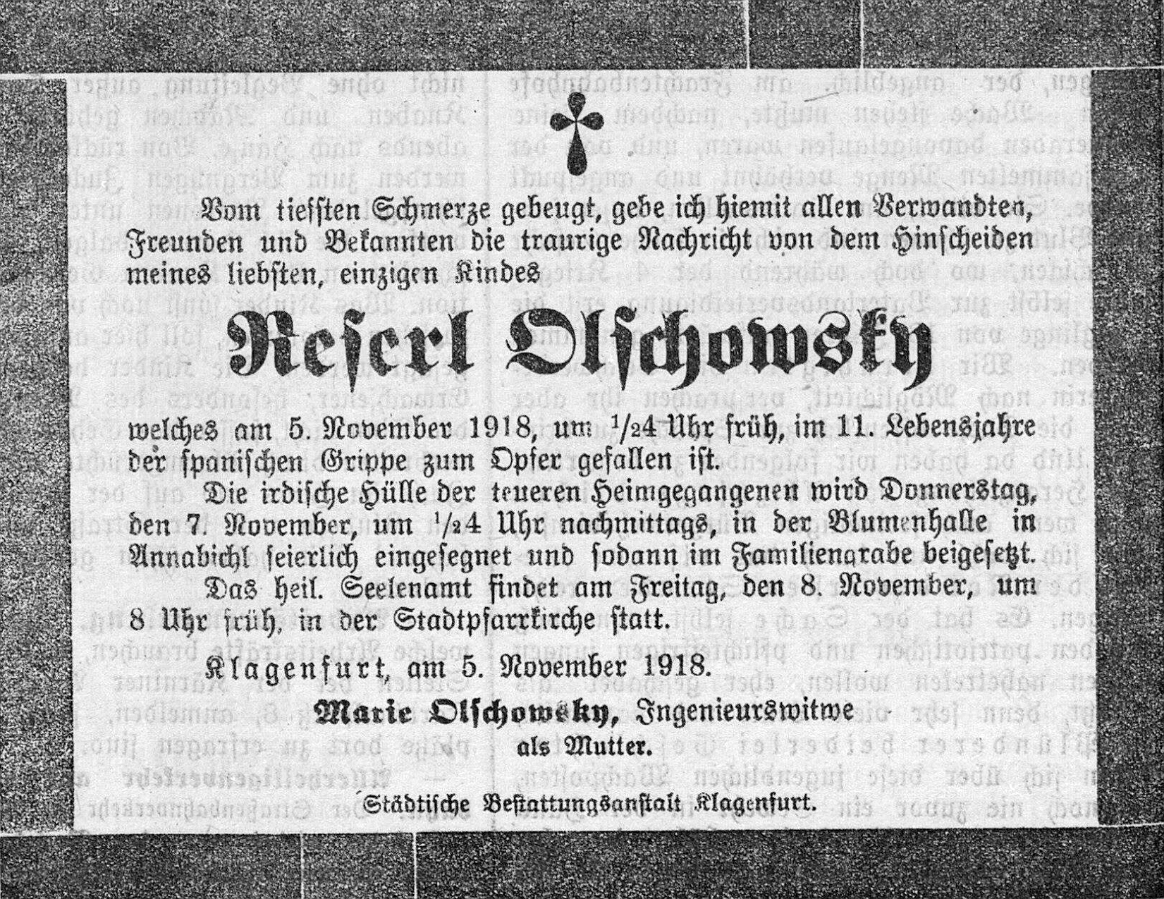 Newspaper reportber 1918 about the Spanish flu from 27th October in „Kärntner Zeitung“, p. 10 in Carinthia / Austria / European Union